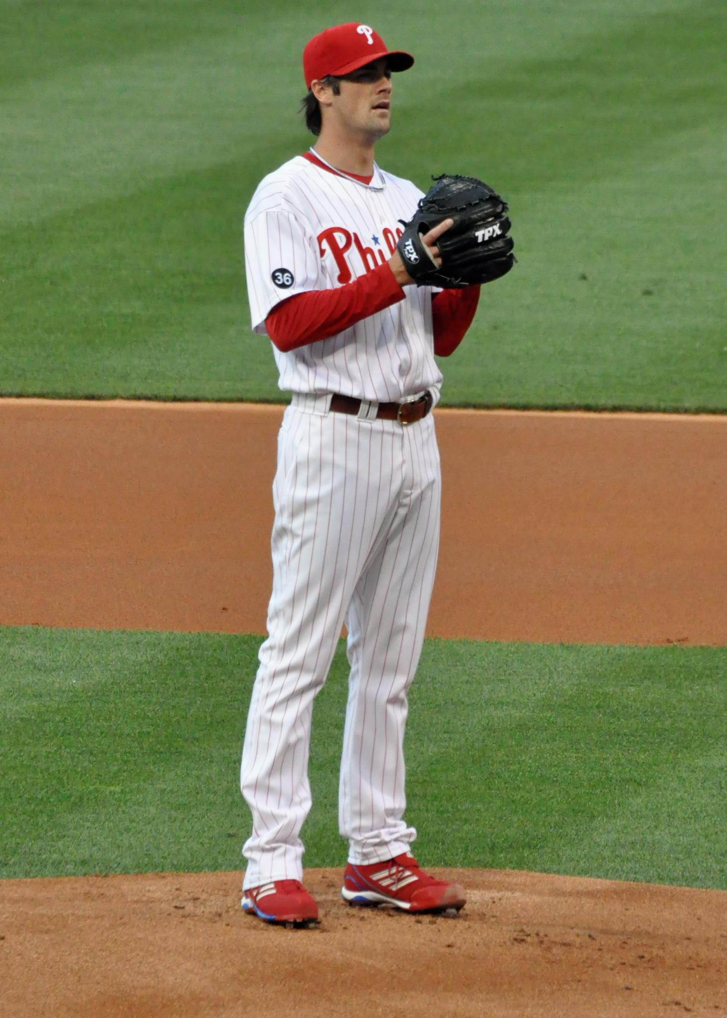 Cole Hamels of the Philadelphia Phillies pitching in 2010.